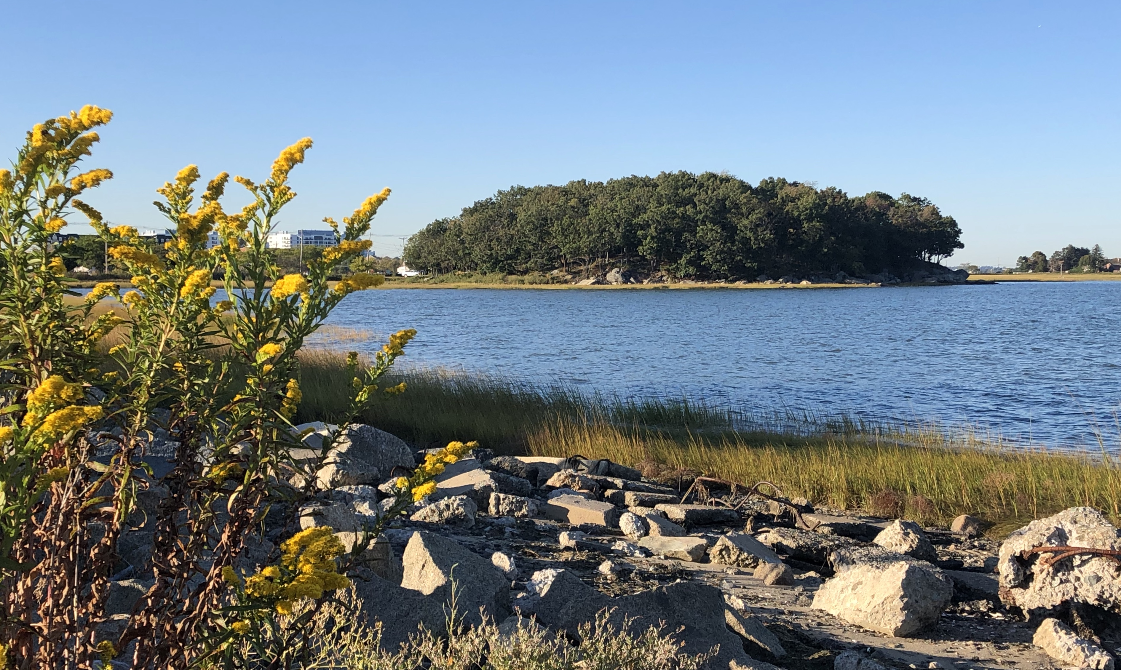 the hummock